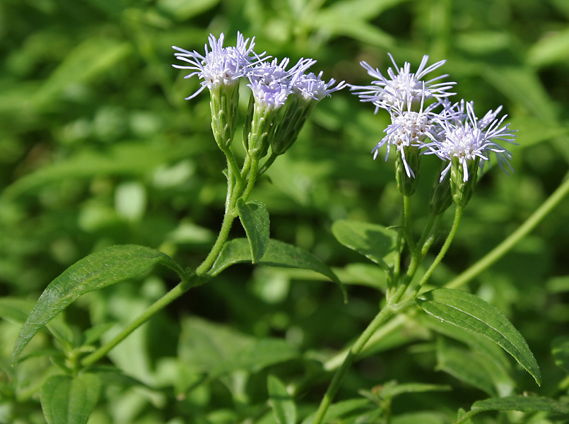 Chromolaena odorata (Syn. Eupatorium odoratum)- Siam Weed, Bitter bush, Devilweed, Hagonoy, Jack in the bush, Triffid weed • Hindi: तीव्र गंधा Tivra gandha, Bagh dhoka • Malayalam: കമ്മ്യുണിസ്റ്റ് പച്ച Communist Pacha, Venapacha- in Hyderabad, India.